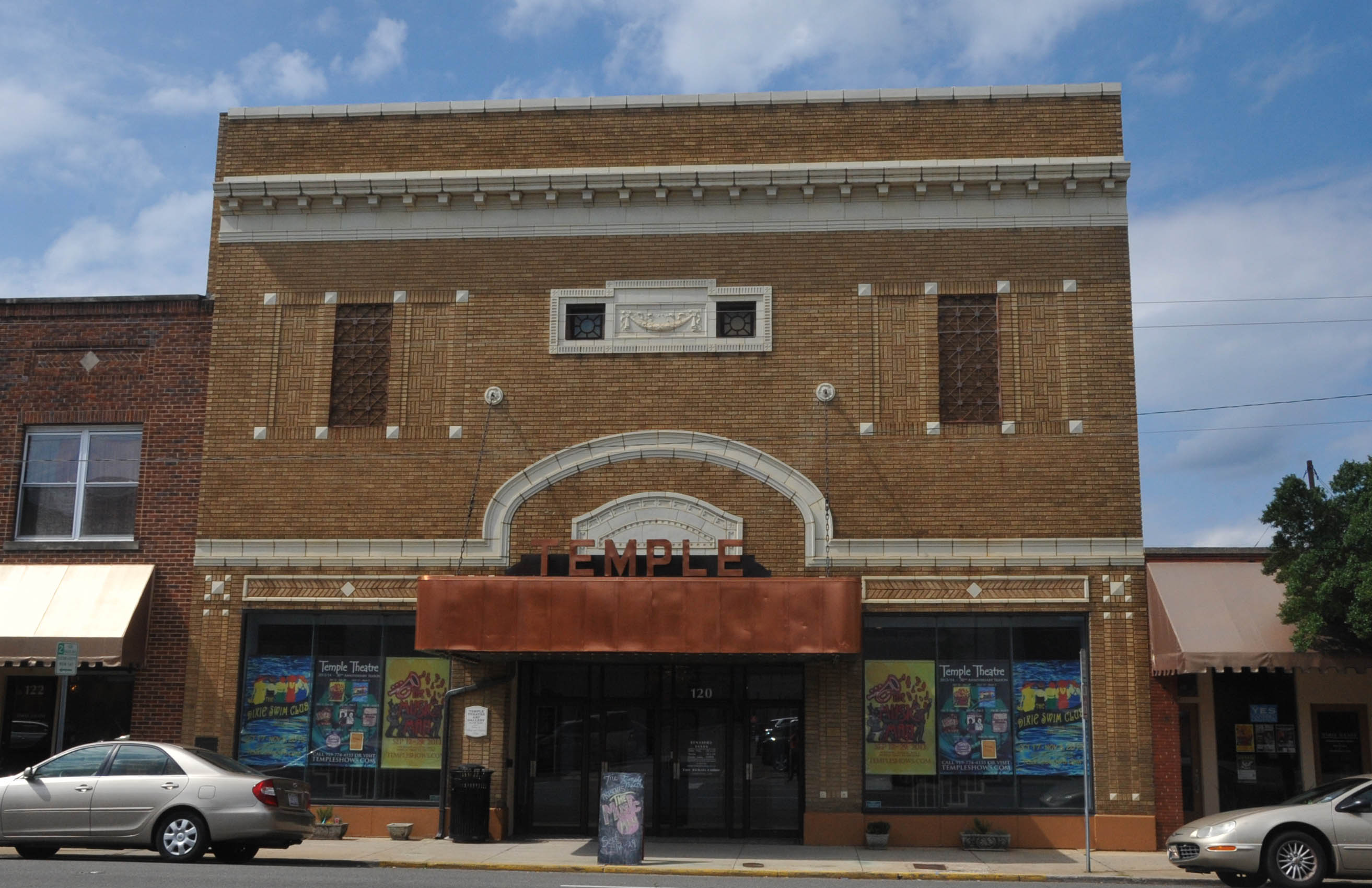 1925; LATE 19TH AND 20TH CENTURY REVIVAL: COLONIAL REVIVAL; MODERN MOVEMENT; NOW APPEARS TO BE ATHEATER FOR THE PERFORMING ARTS